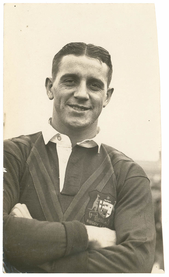 "Hector Arthur Gee (10 November 1909 – 1987) was an Australian professional rugby league footballer of the 1930s, and '40s, playing at representative level for Australia (#167), British Empire XIII, and Dominion XIII, and at club level in Australia for Tivoli, and in England for Wigan, as a Stand-off/Five-eighth, or Scrum-half/Halfback, i.e. number 6, or 7." Format: Photograph Find more detailed information about this photographic collection: .au/item/itemDetailPaged.aspx?itemID=52644 Search for more great images in the State Library's collections: .au/search/SimpleSearch.aspx From the collection of the State Library of New South Wales